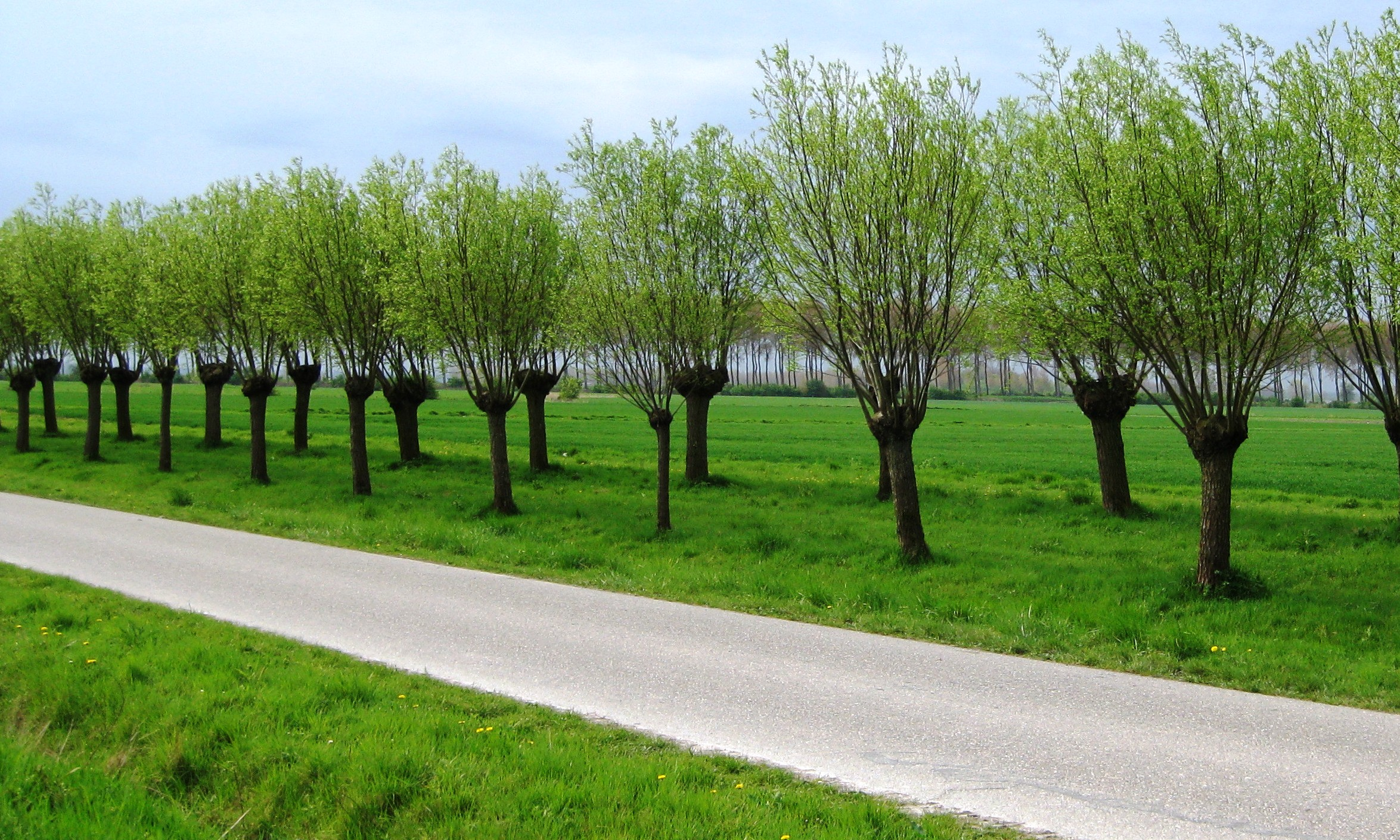 Pollarded trees near Sluis in April 2009 two years after pollarding. (I took a picture from the same roadside layby in April 2007 when the pollatrding has just been done.)